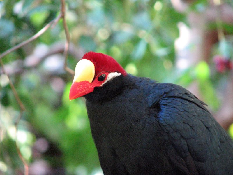 A Violet Turaco at Los Angeles Zoo, California, USA.